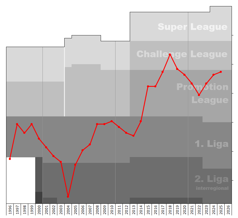 Chart of end-season table positions of FC Rapperswil-Jona in the Swiss football league system. Data source: RSSSF, , football.ch